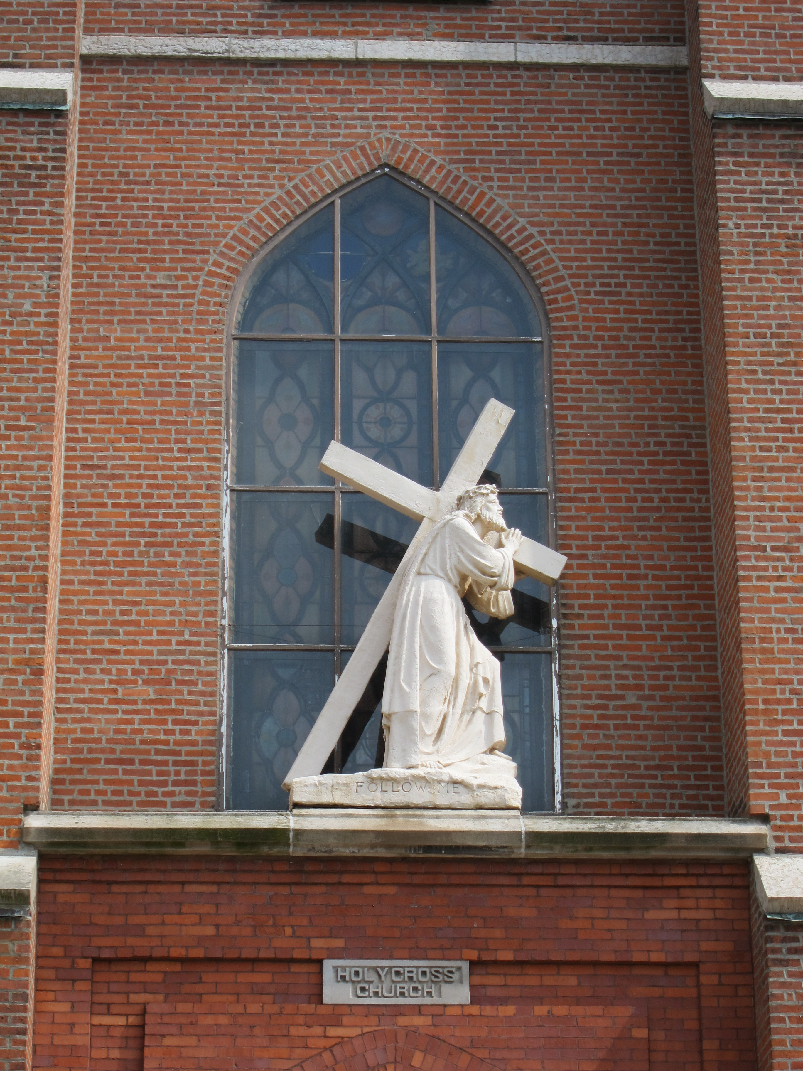 Holy Cross Catholic Church (C-bus, OH), exterior, detail, statue of Christ, Follow Me